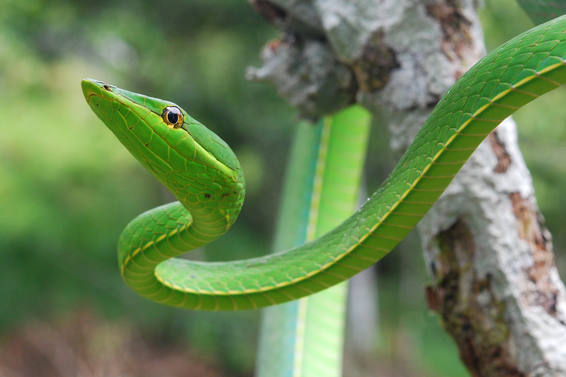 A Green vine snake (Oxybelis fulgidus) in Yasuni National Park, Ecuador.